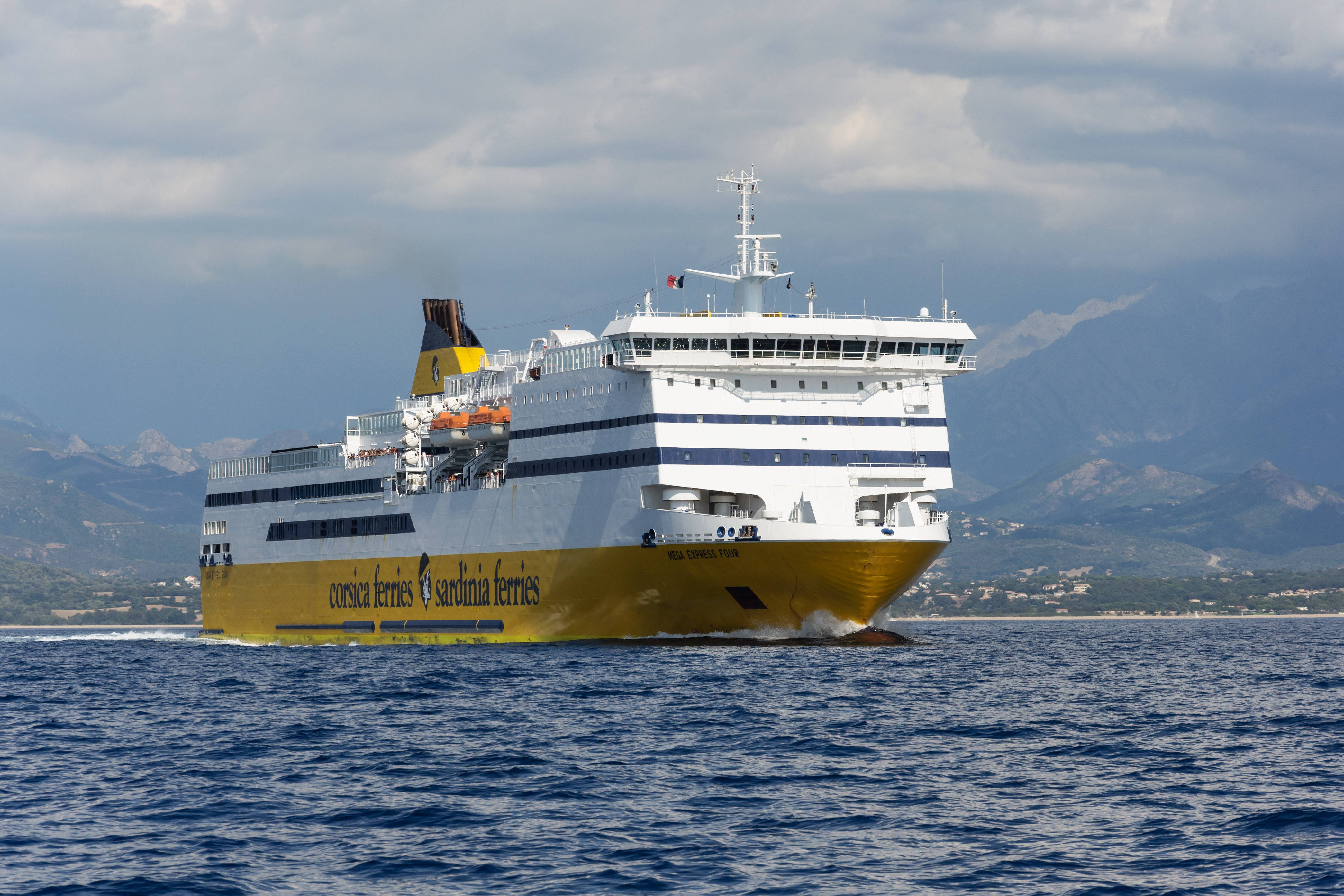 The Corsica Ferries fast ferry MS Mega Express Four at Ajaccio, Southern Corsica, France